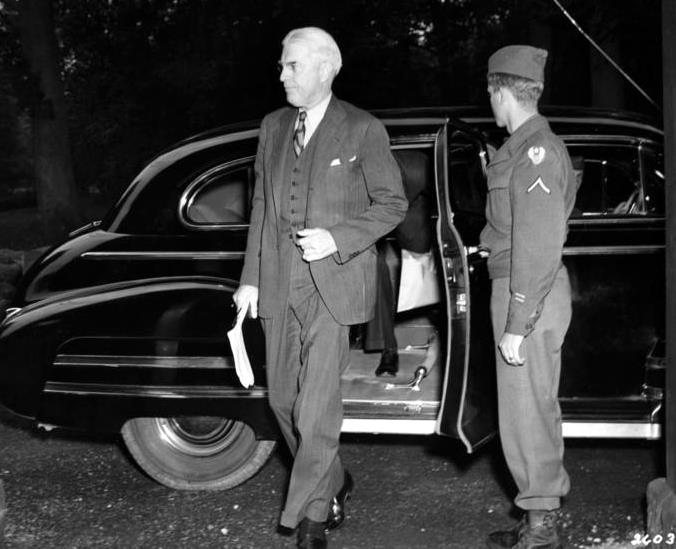 Title: William L. Clayton arrives for Potsdam conference. Description: William L. Clayton arrives for Potsdam Conference. From Potsdam album, 1945